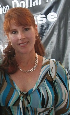 Patricia Tallman at the 2007 Comic Con